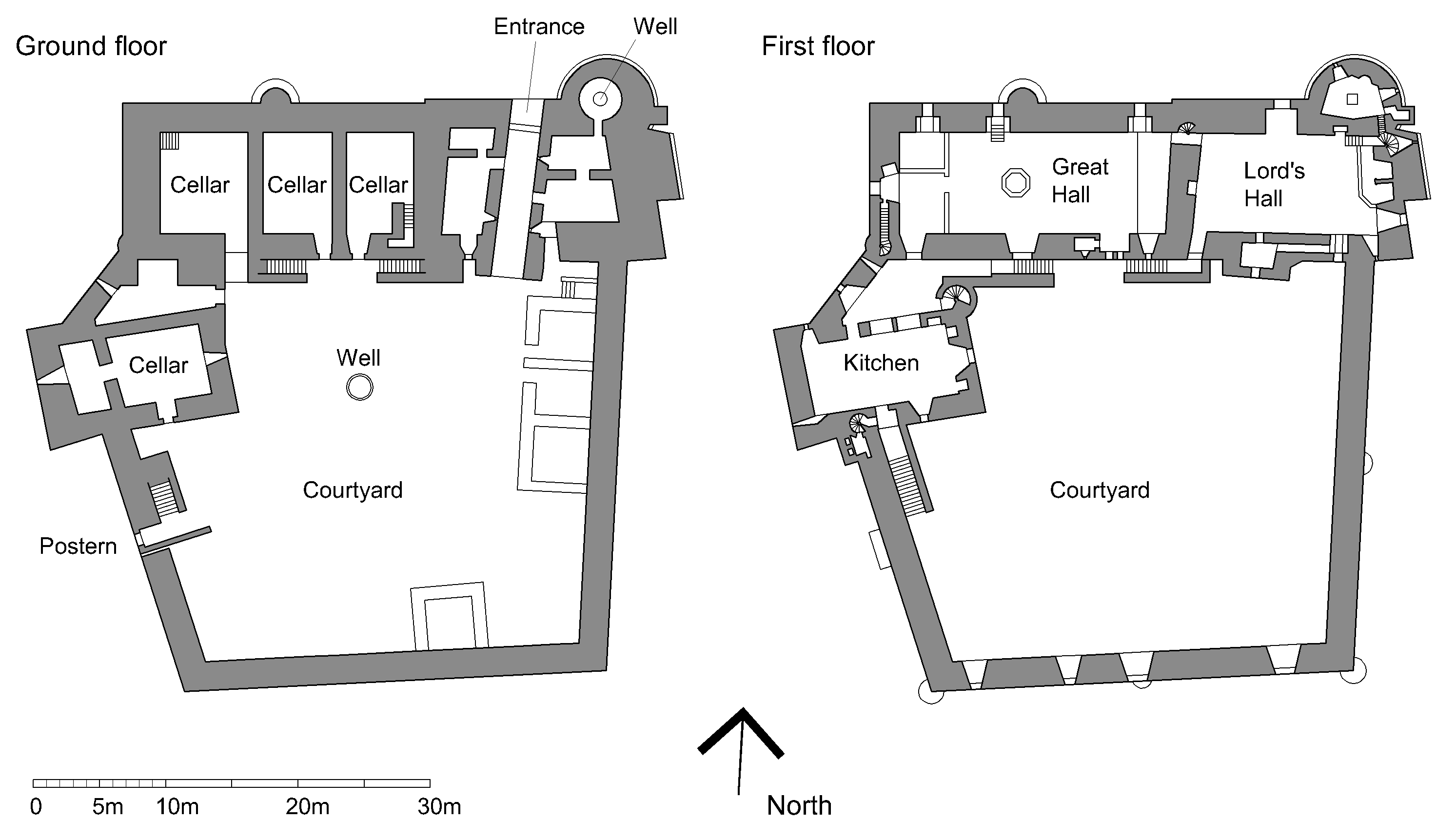 Ground and first floor plans of Doune Castle, near Stirling, Scotland.